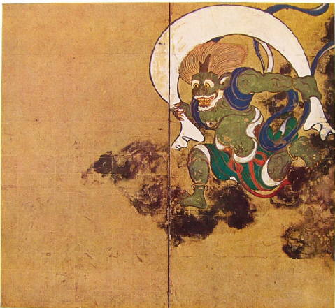 One Wing'Wind Deity' of Screen Painting " Wind deity and Thunder daity" by Tawaraya Sotatsu(active about 1630?-1640?) in Kyoto, Japan, painter, minuaturarist, illumination_maker.